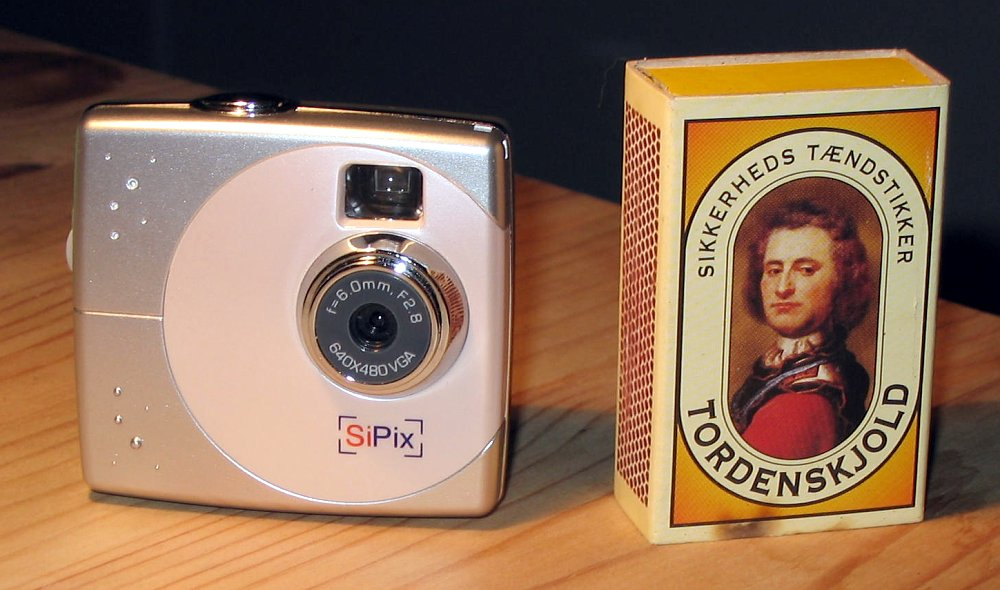 SiPix StyleCam Snap dual-mode digital camera next to a box of Danish Tordenskjold matches.